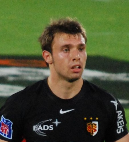 the French rugby union player Vincent Clerc, during the finals of TOP 14 in 2009